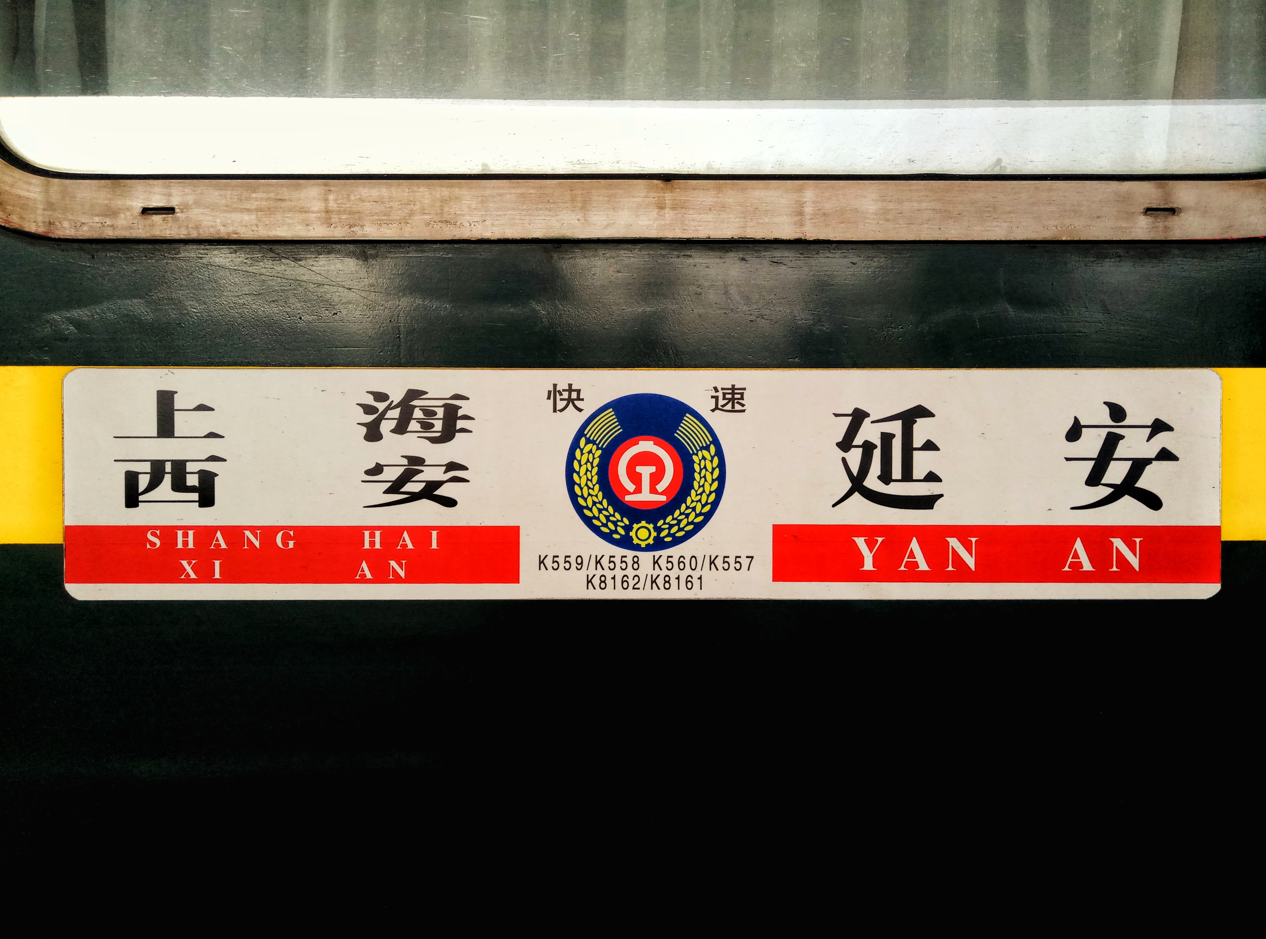 Xi'an Railway Administration Passenger Train K559